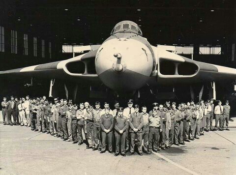 This is my Dad (on the far right front row), with the rest of the General Engineering Firm, and the flight crew, stood in front of the Vulcan just before she left for the Falklands, where she would ultimately bomb Port Stanley.